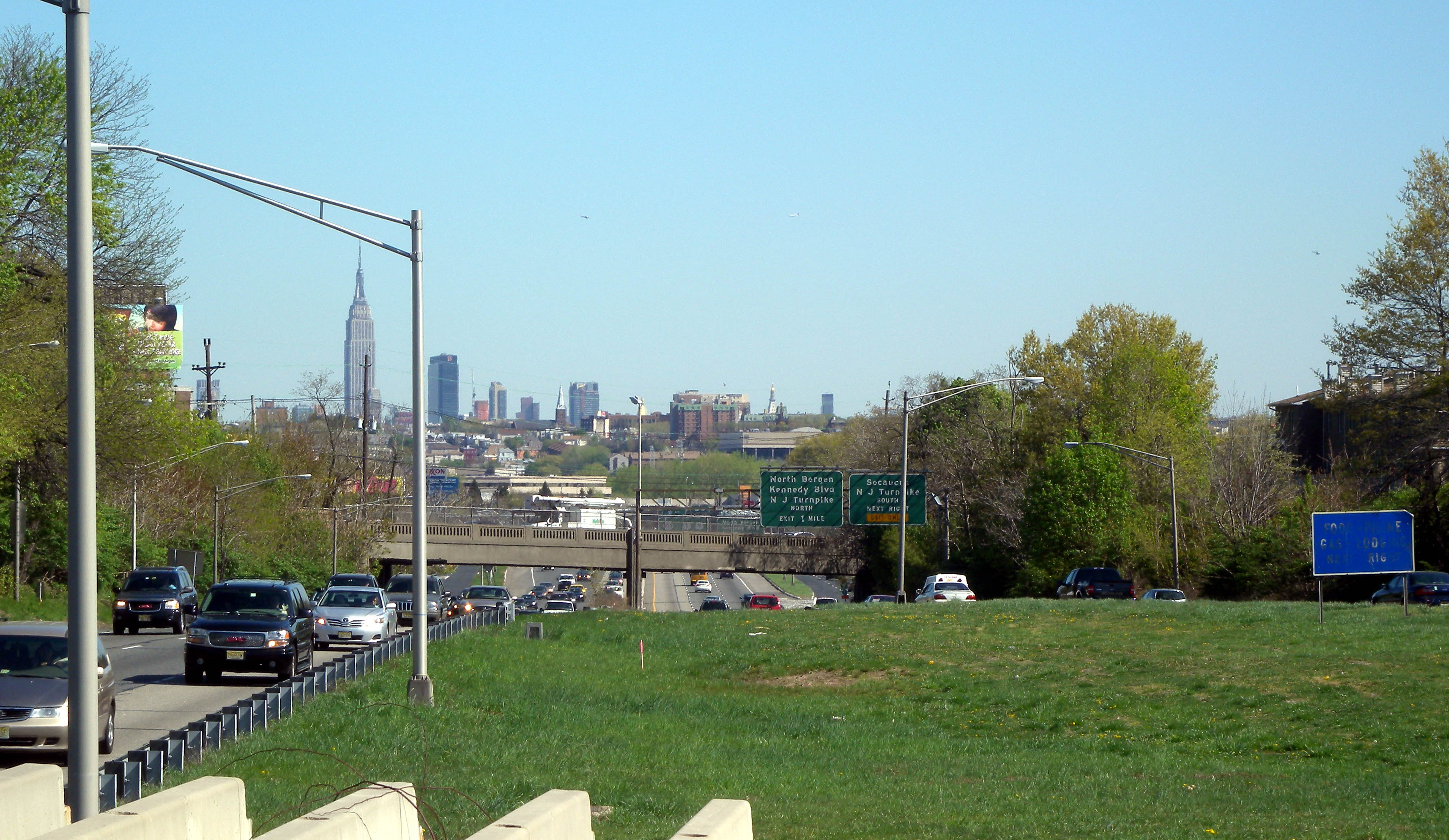 Looking southeast along Rt 3, south of pedestrian bridge, towards Paterson Plank Road overpass and NJ Turnpike exit, on a sunny midday.